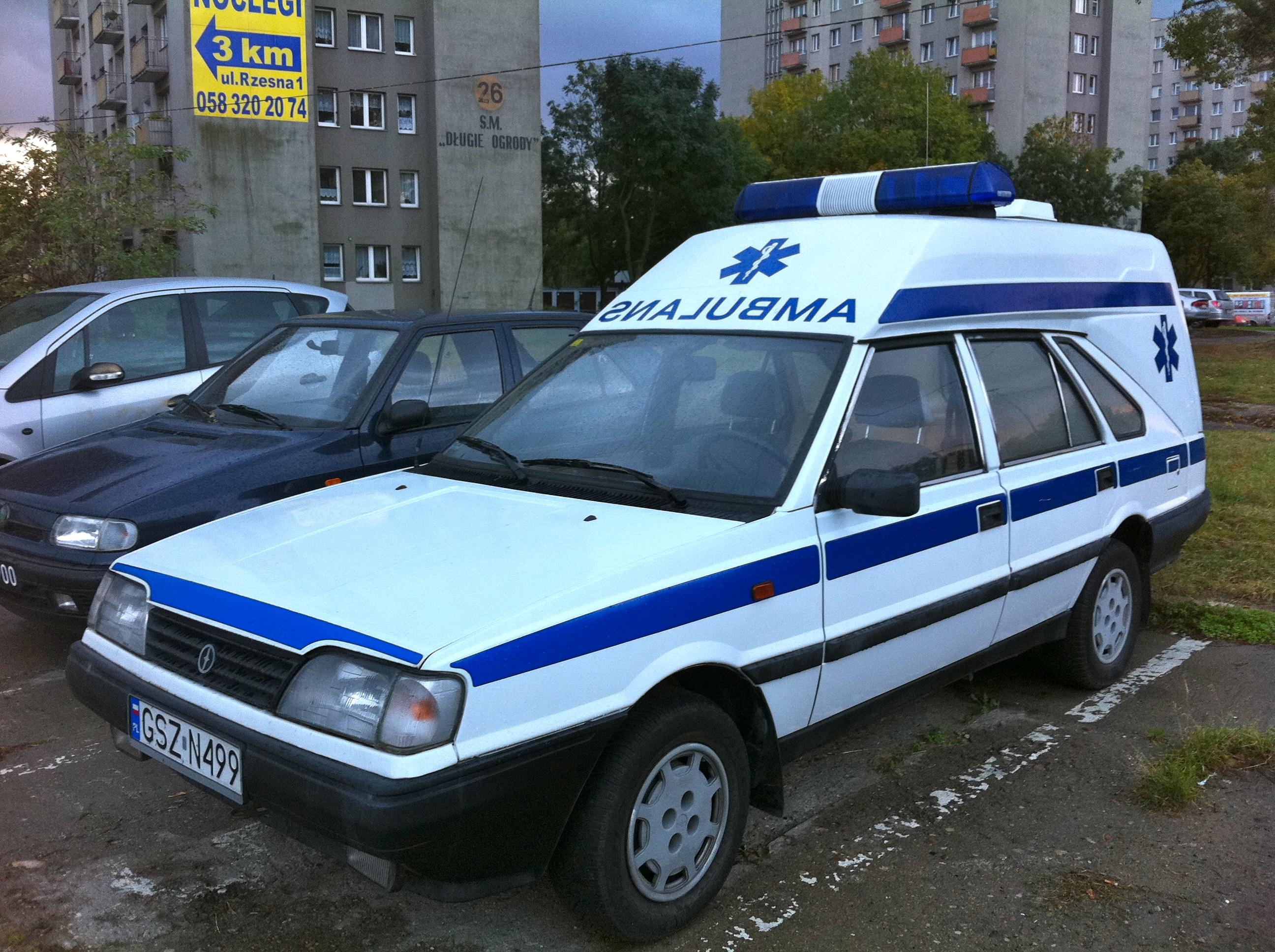 FSO Polonez Cargo based ambulance (Ambulans) photographed in Gdansk.